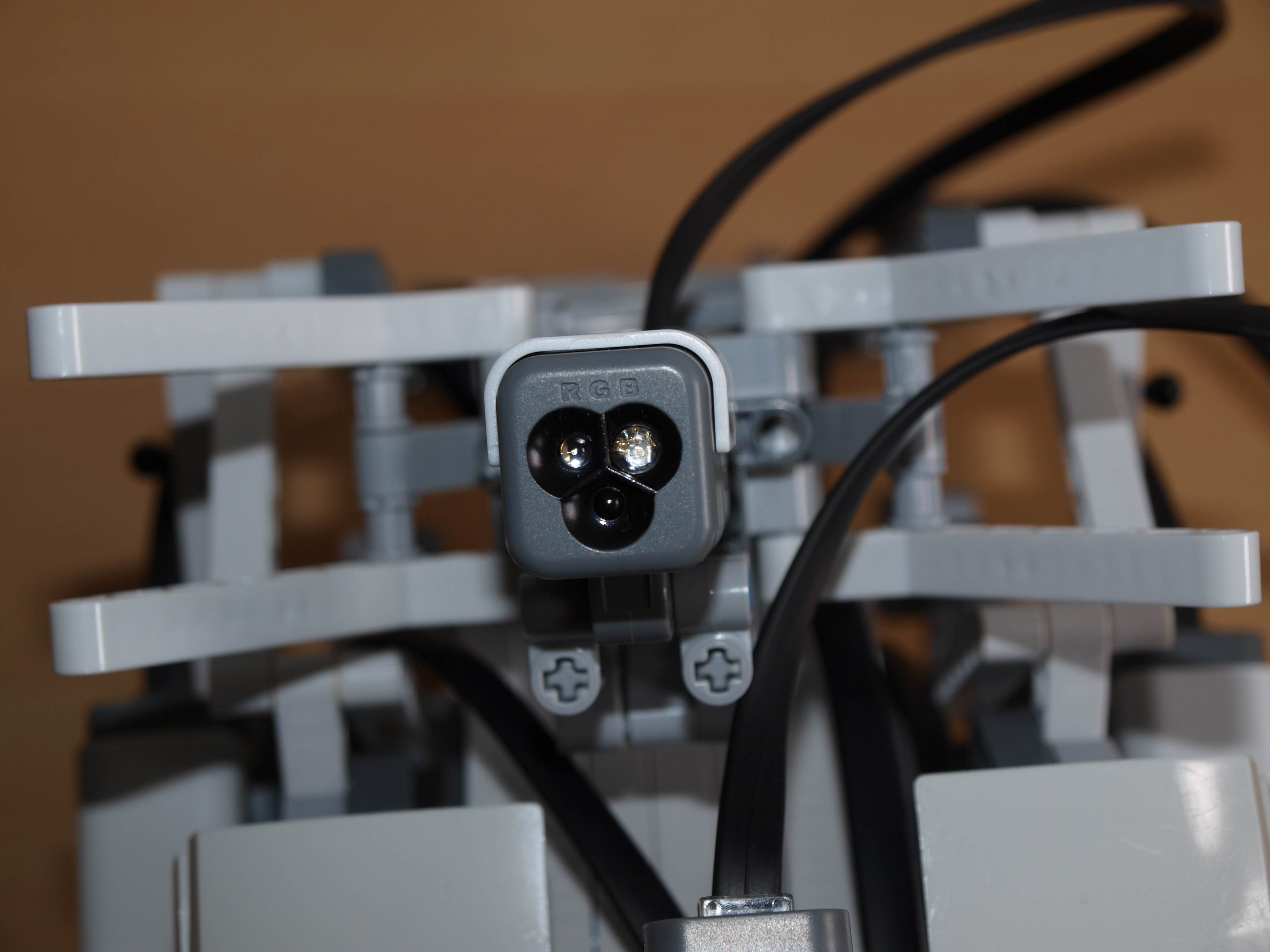 The new Color/Colour sensor in the NXT 2.0 kit.